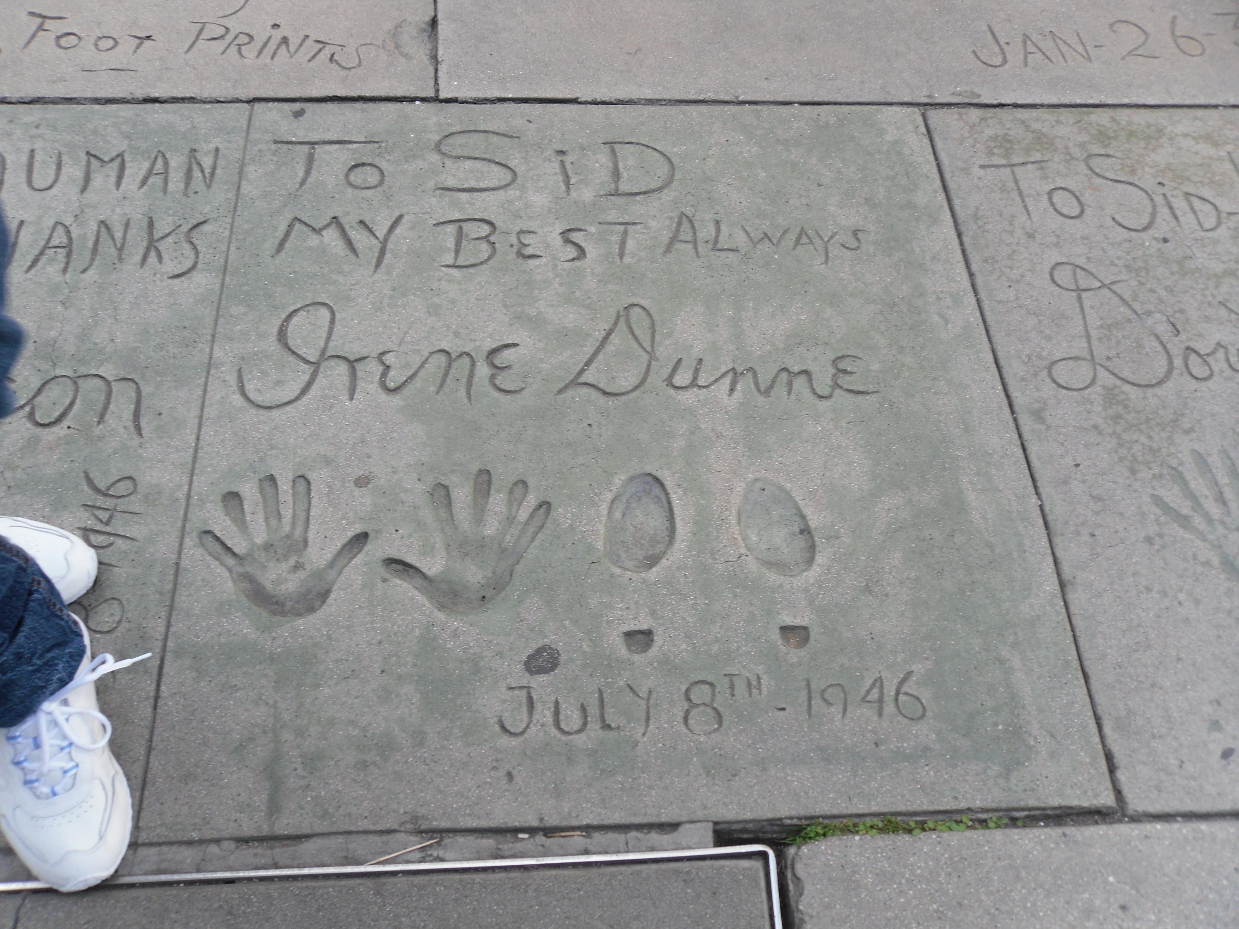 Irene Dunne's signature at Grauman's Chinese Theatre